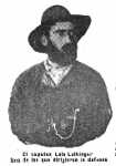 Luis Lutringer, railway boss who defended La Sabana during the famous indian attack in 1899.